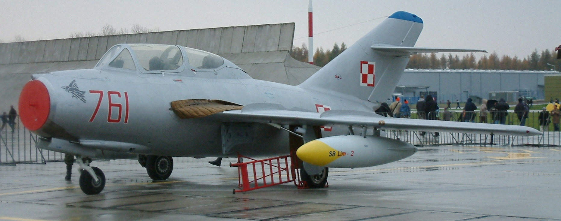 SB Lim-2 (MiG-15UTI) #761 of Polish Air Force, 31st Air Base, Poznań-Krzesiny